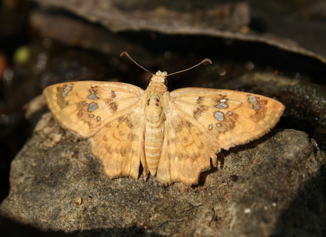 Golden Angle (Caprona ransonnetti) UP. Thane, Maharashtra. 2 May 2010 (11)